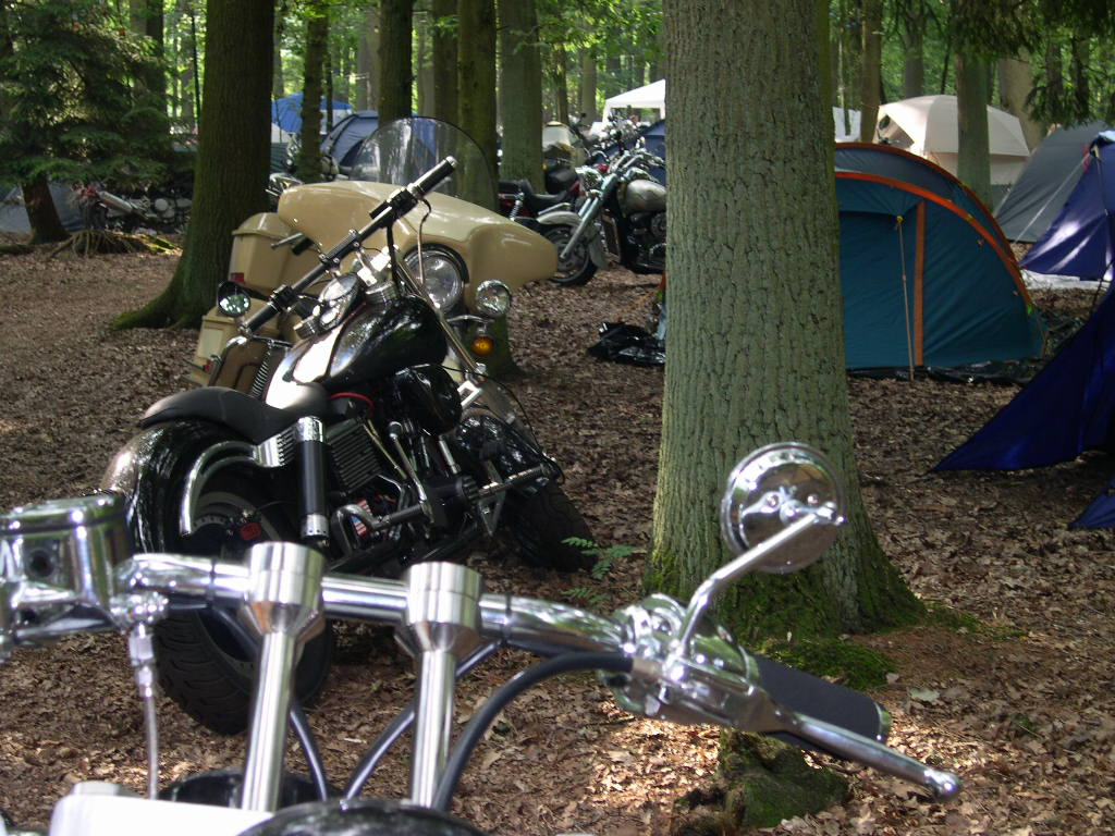 Drag bars